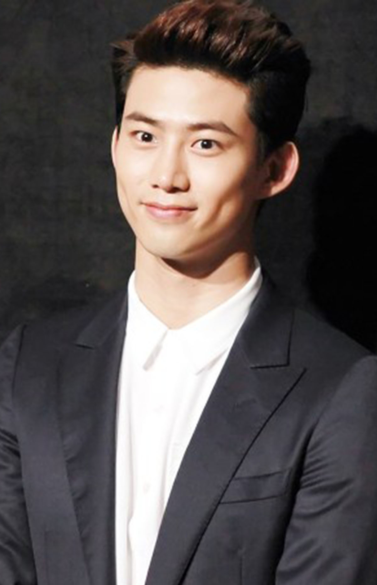 Ok Taec-yeon at the VIP premiere of the movie "Marriage Blue" on July 23, 2013.